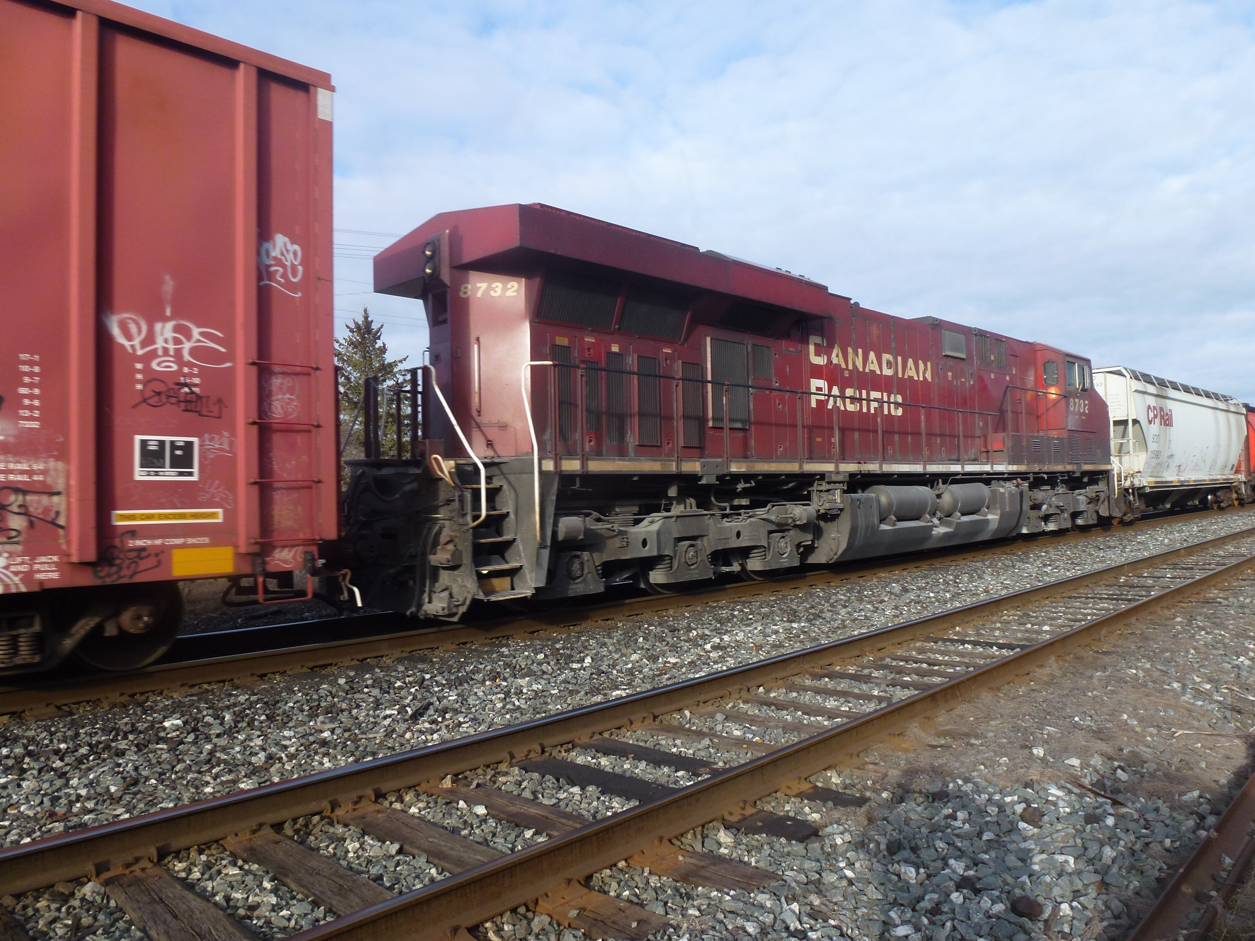 Canadian Pacific locomotive no.8732 being controlled remotely from another locomotive (no.8540; both locomotives are GE AC4400CWs) partway through a long freight train, and moving long-hood-forward through Bolton, Ontario on 5 March 2018.